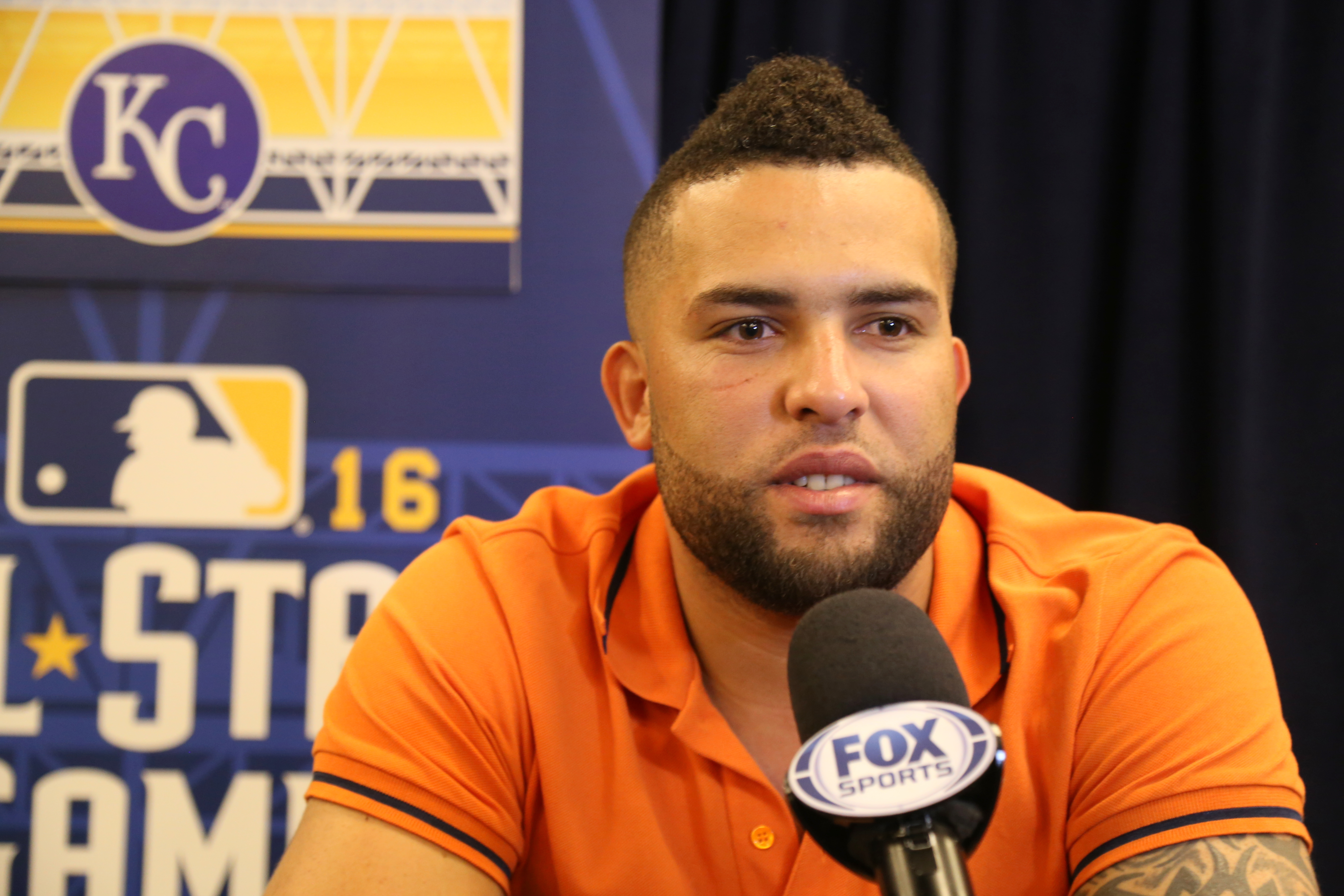 Royals reliever Kelvin Herrera talks to reporters at 2016 All-Star Game availability.